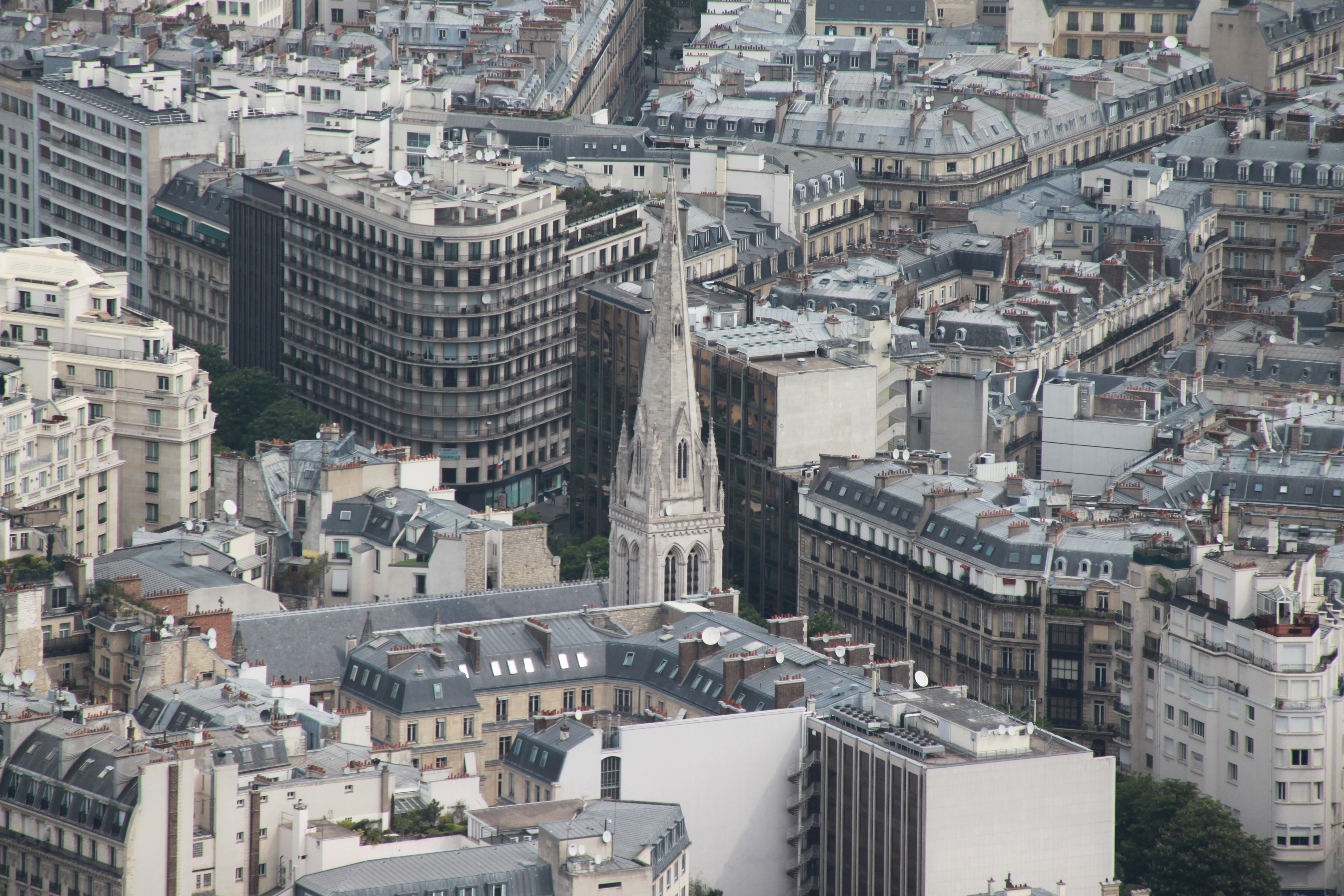 American Cathedral as seen from the Eiffel Tower, Paris.